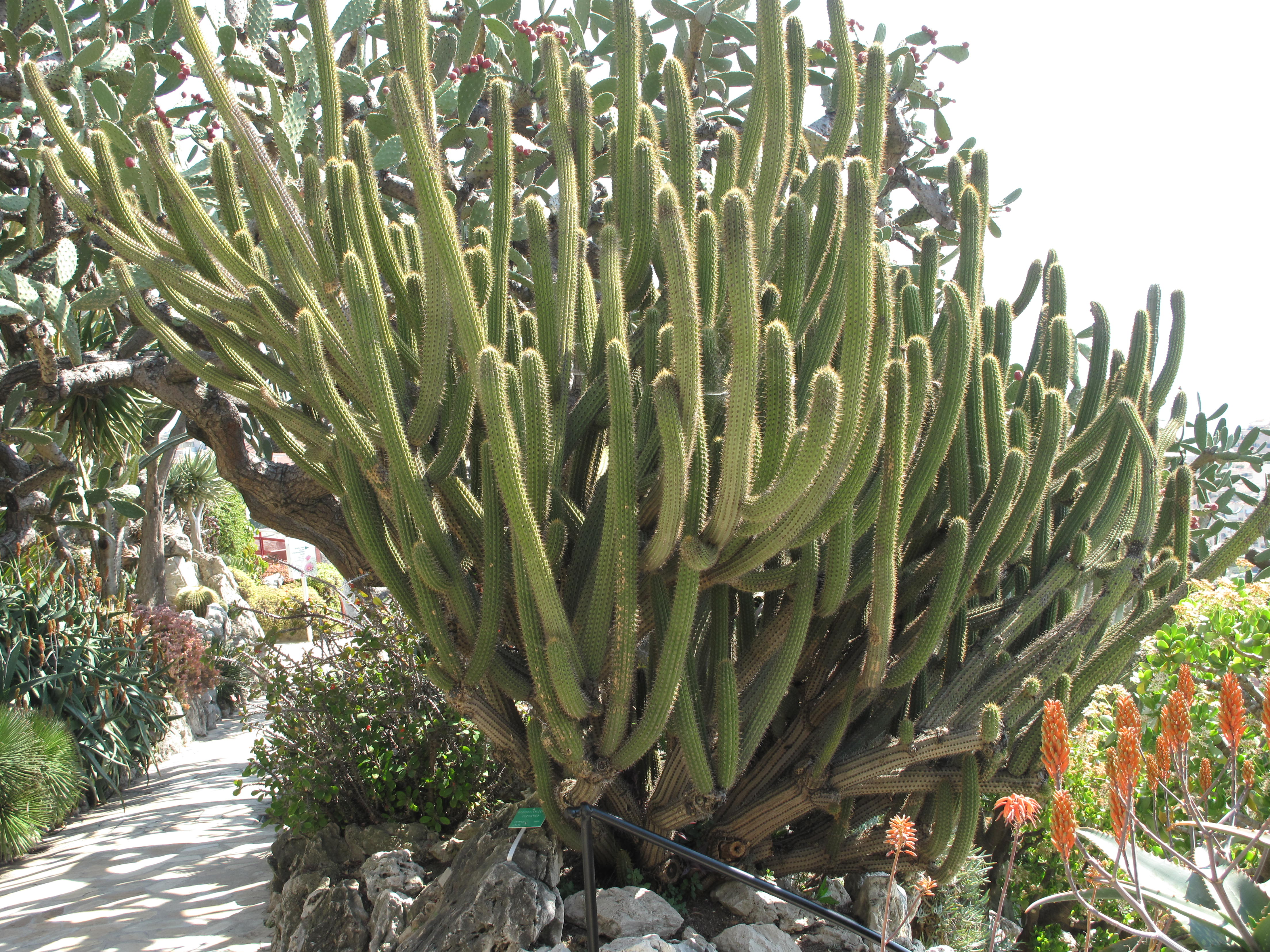 Weberbauerocereus cuzcoensis in the exotic garden of Monaco. Identified by label.